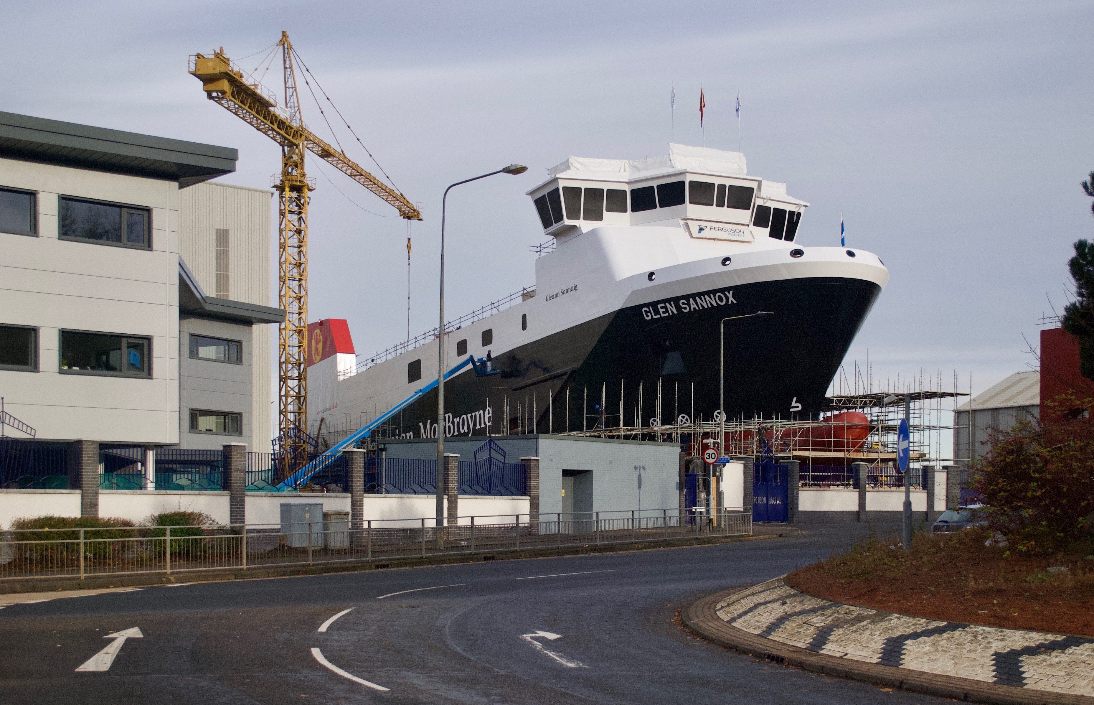 MV Glen Sannox under construction at Ferguson Marine Engineering, Port Glasgow, seen across the A8 main road at the roundabout junction with the A761 road (Clune Brae ).